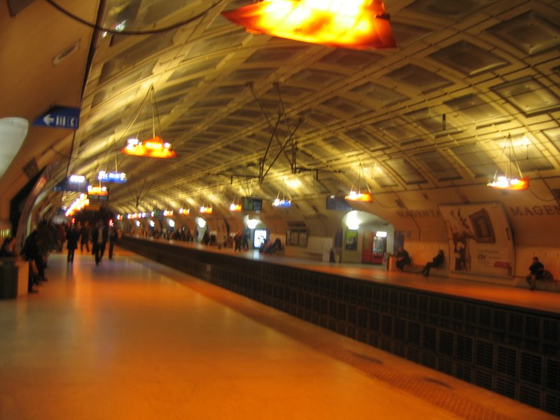 The RER E at the station Magenta. (author : Metropolitan)